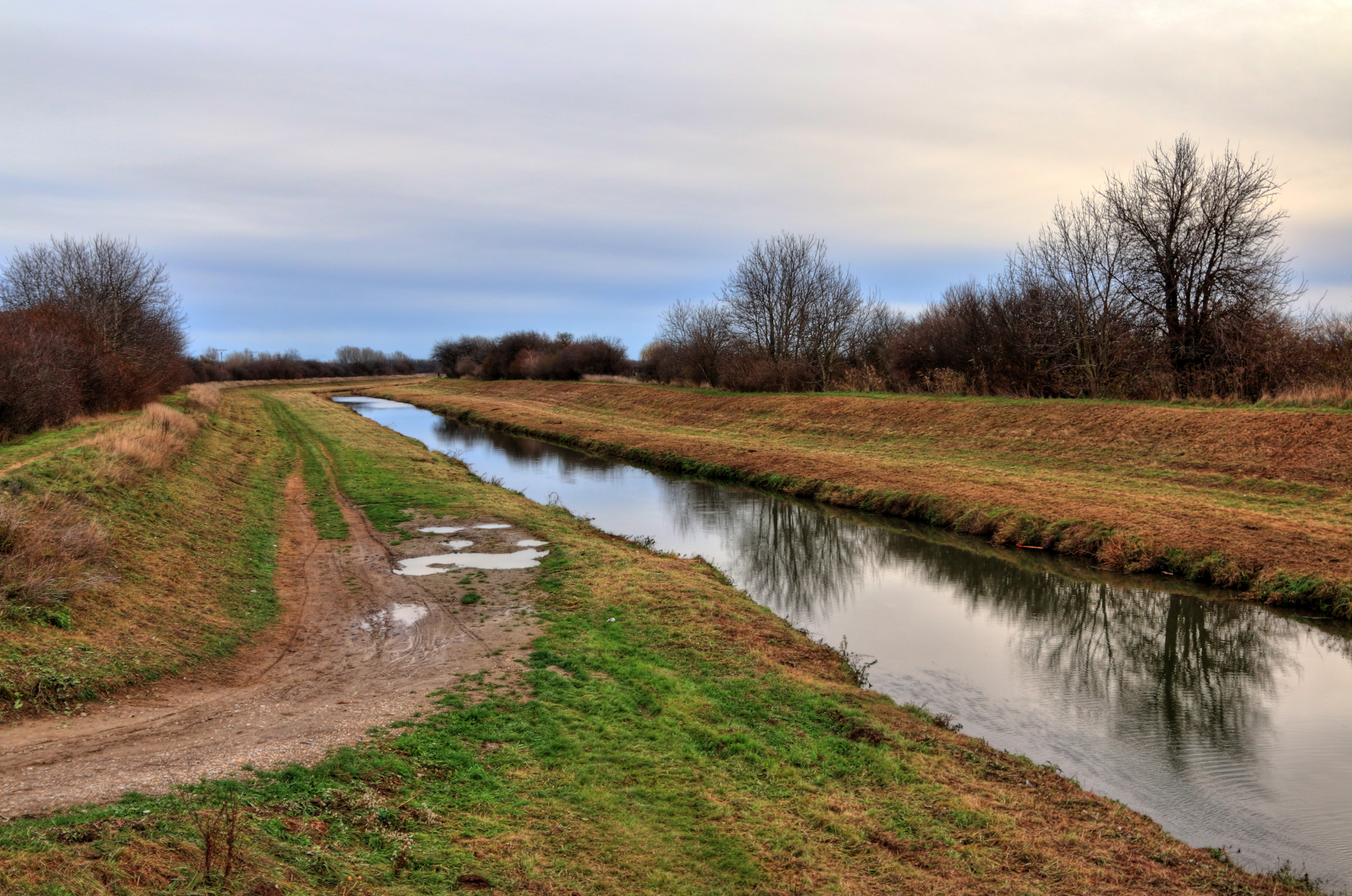 Šúrsky kanál near Ivanka pri Dunaji village. View to the south-east direction. Tone-mapped HDR image.